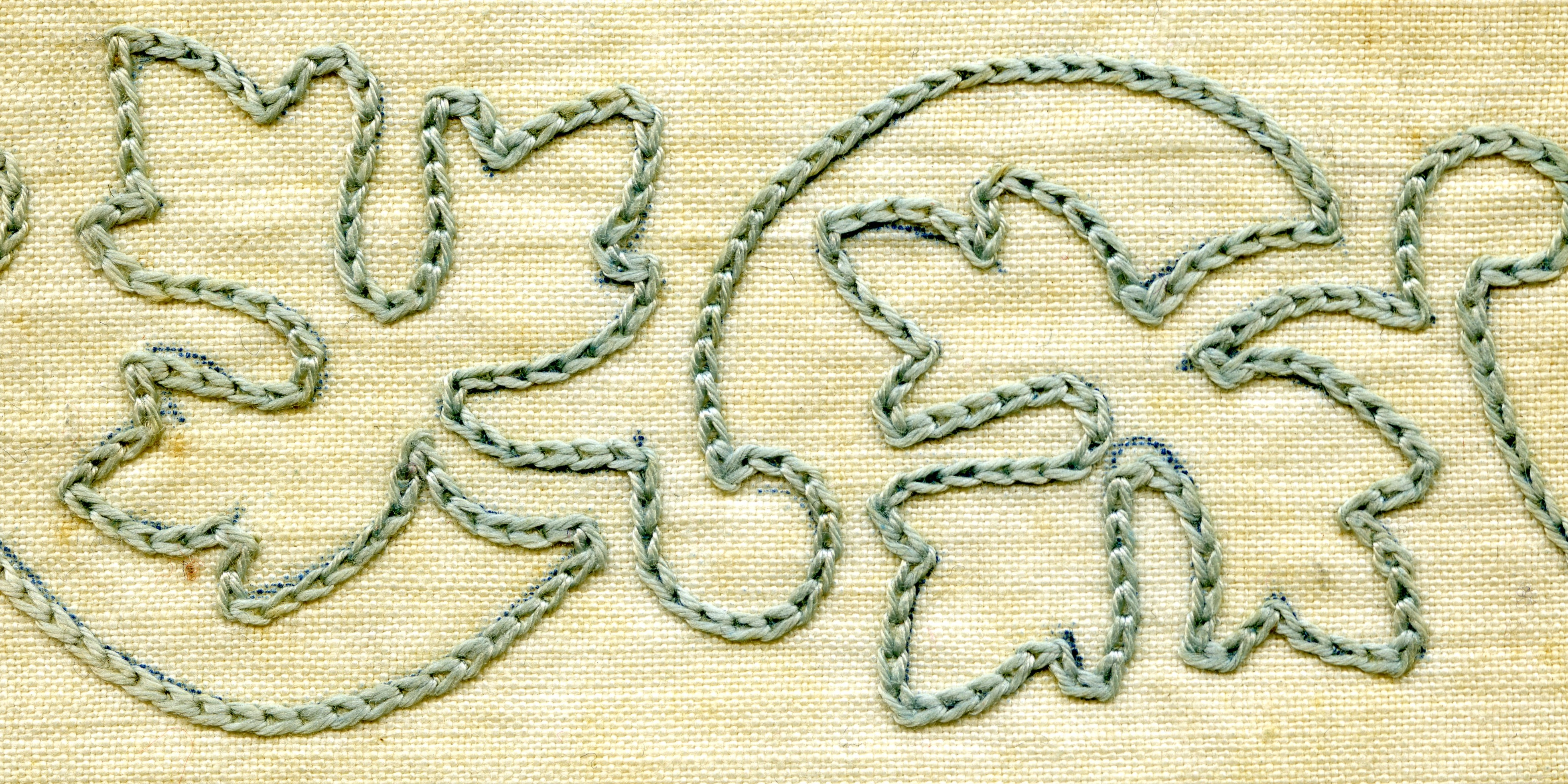 Machine embroidery in chain stitch, front